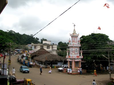 Still Anakkara have the 50 years of past memory